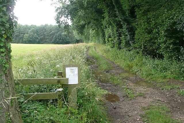 Private footpath in Hurstbourne Park. The notice 880574calls it a private footpath. I suppose that is correct given that it is a footpath but not a public one, but a rather strange turn of phrase.